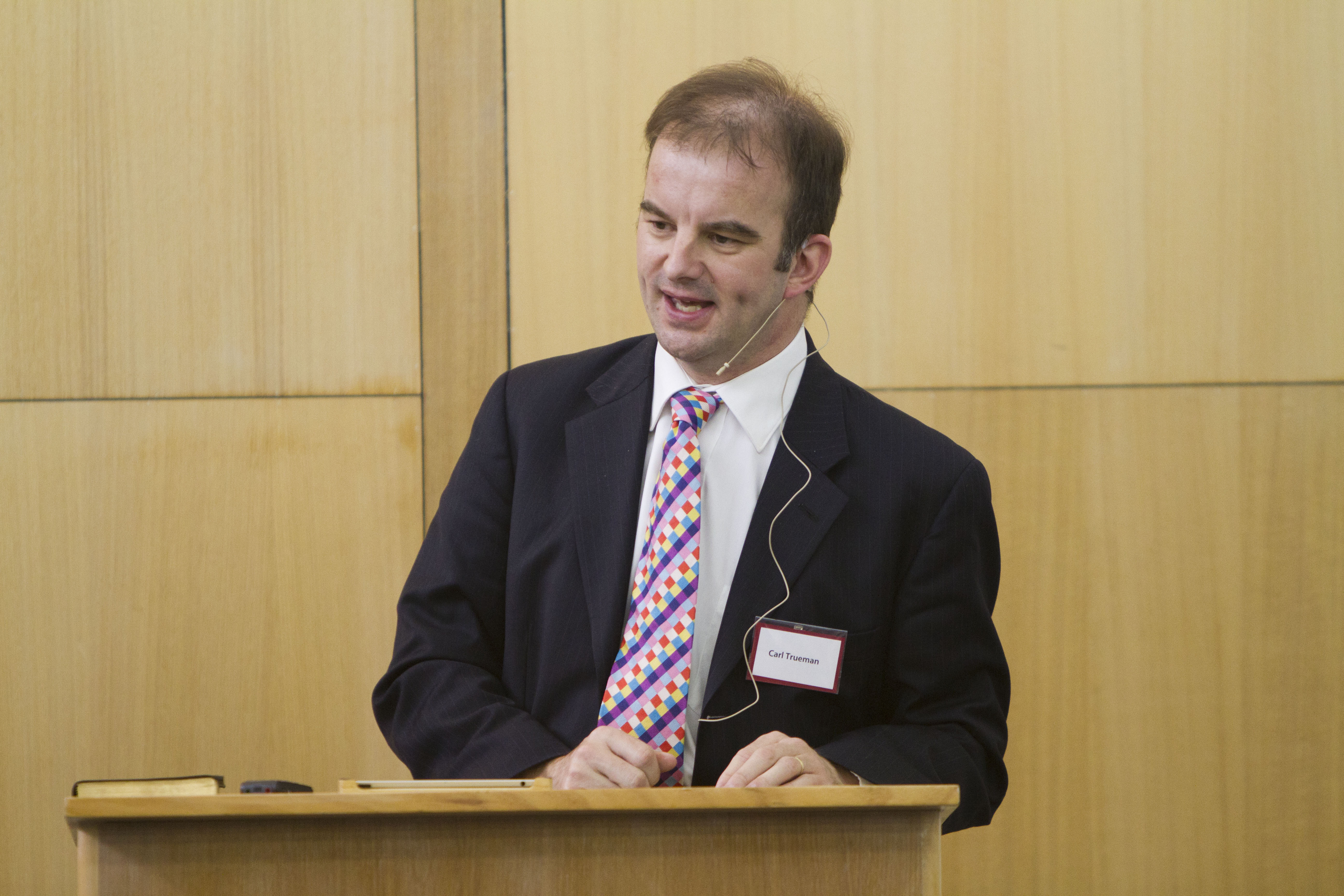 Carl Trueman lecturing at the Presbyterian Theological College, in Melbourne, Australia